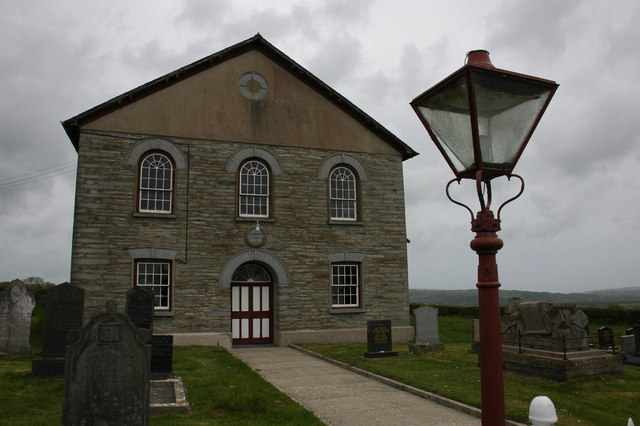 Tyrhos Congregational Chapel The plaque on the front of the chapel reads: 'Built 1815 Rebuilt 1859'